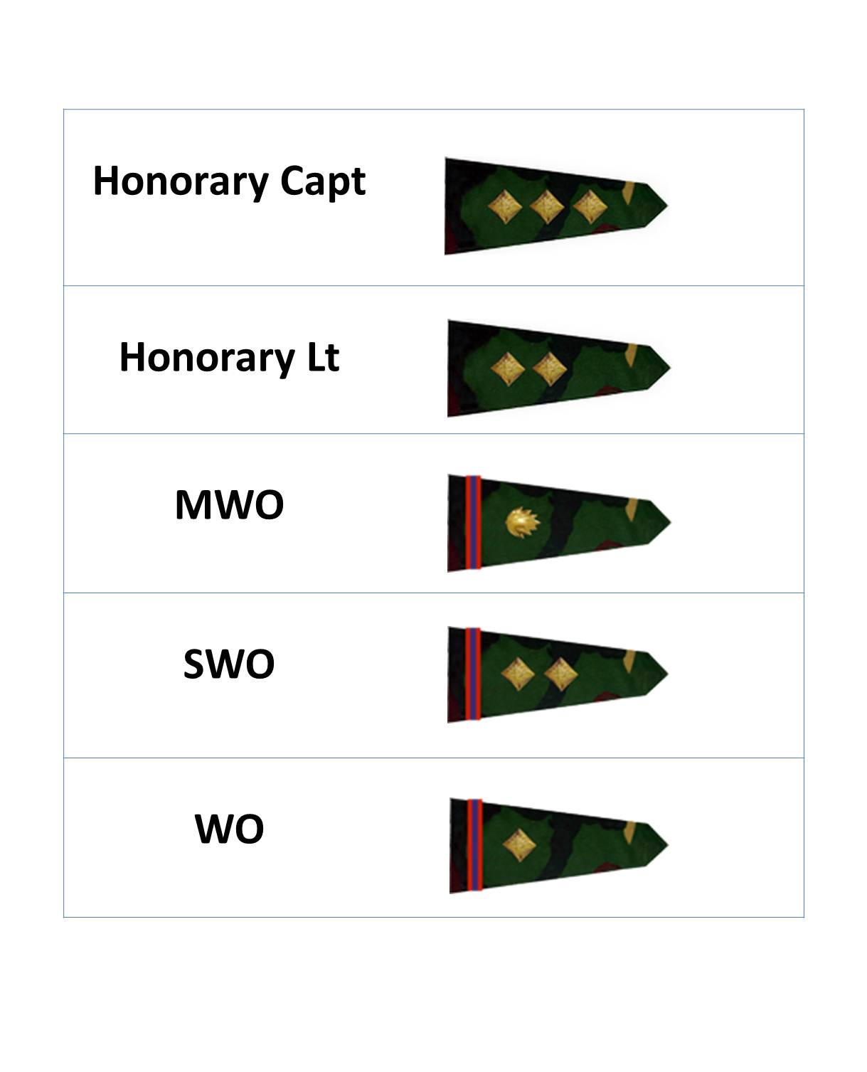 Badges of Rank Of Bd Army JCOs